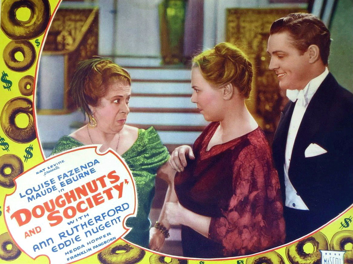 Lobby card for the American comedy film Doughnuts and Society (1936). From right: Maude Eburne, Louise Fazenda, and Edward Nugent. There are no copyright marks on the card. The uncropped copy can be sen at the link above. At lower right is Country of origin USA. (Below the Mascot logo)